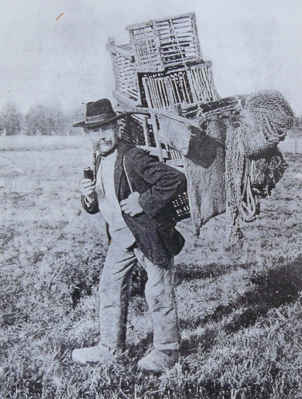 Bird catcher